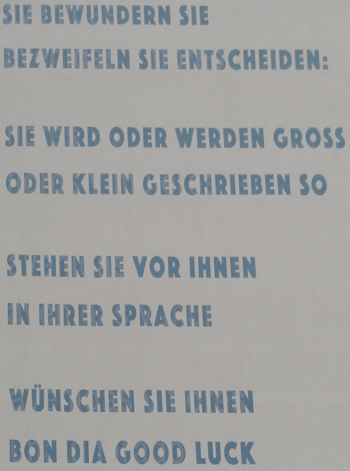 Alice Salomon University in Berlin in January 2019